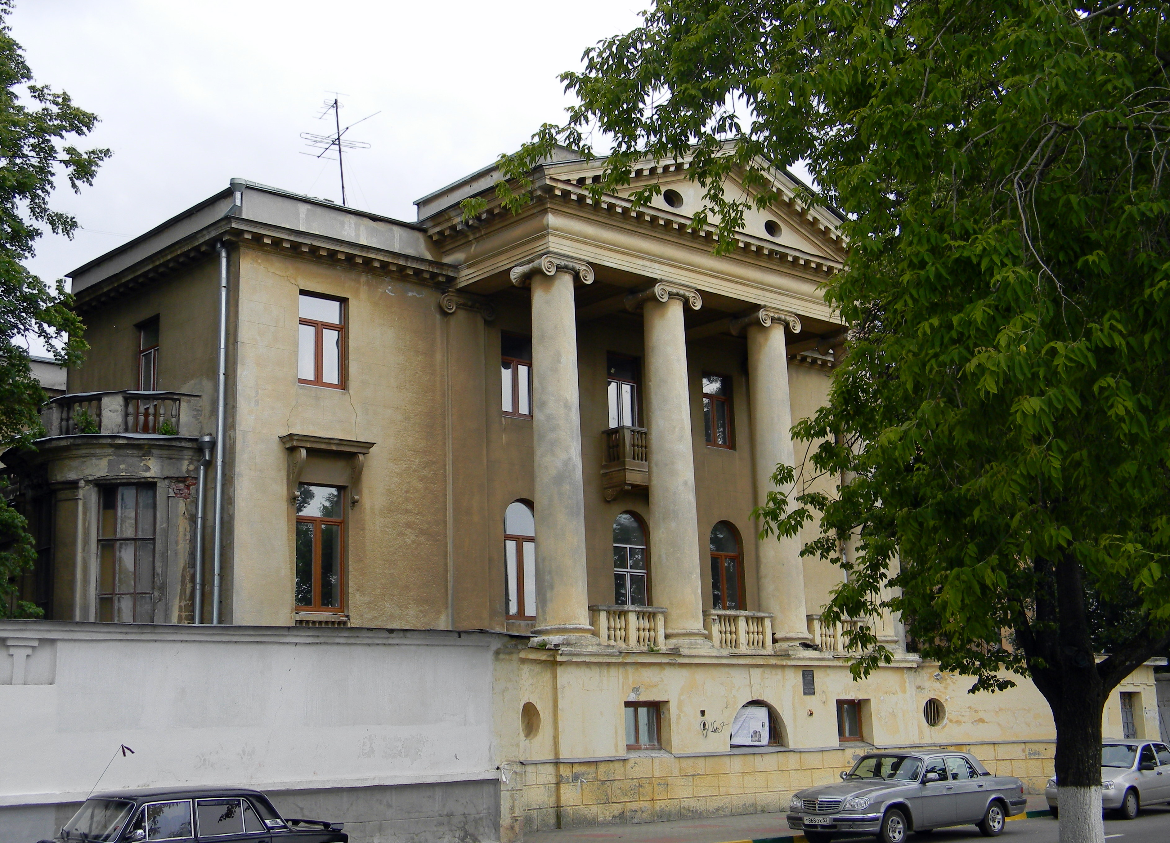 The Mansion of the Kamenskies (1912—1914) at Upper Volga River enbankment in Nizhny Novgorod